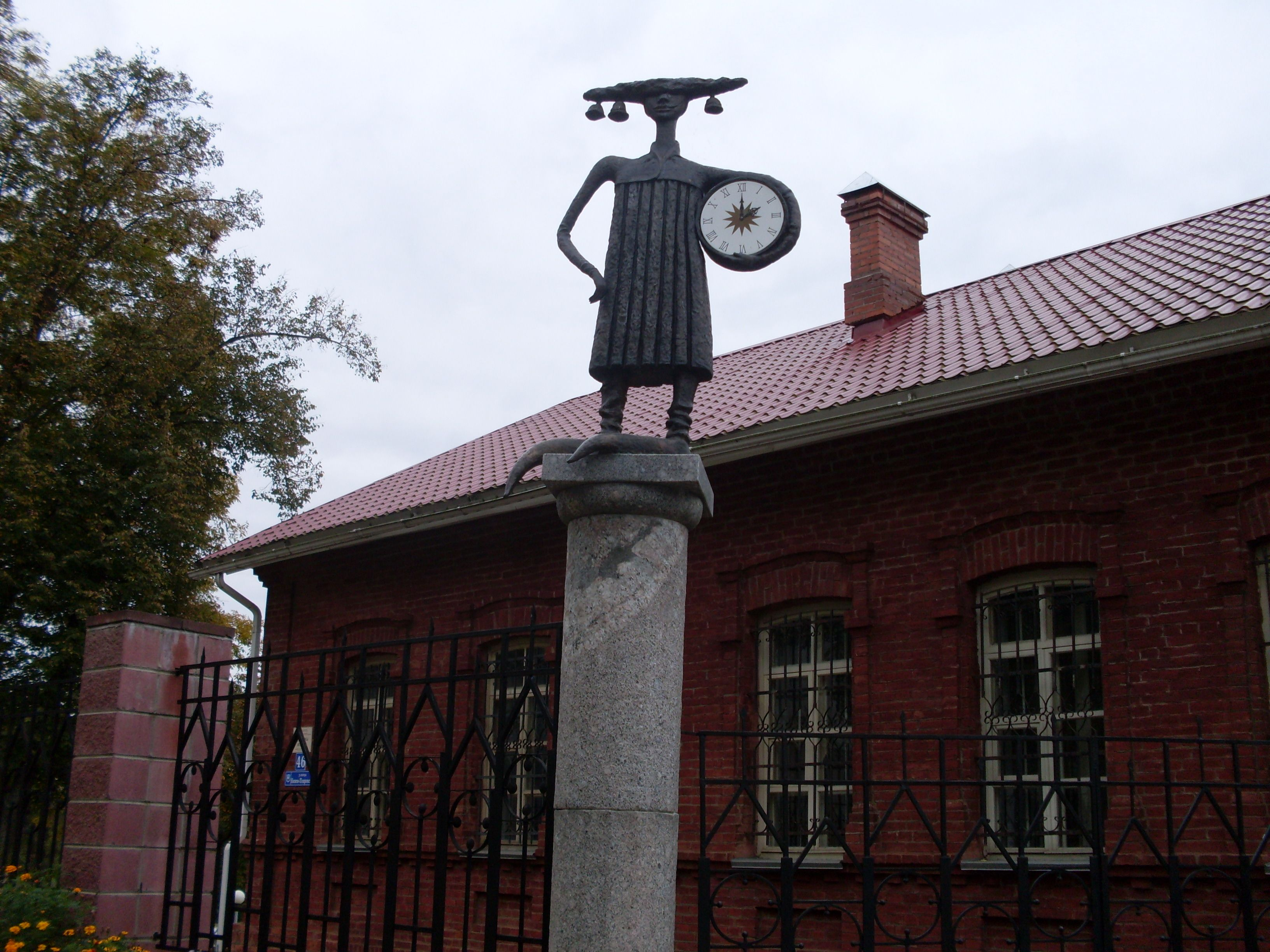 Polotsk (Belarus). Children's Museum. Sculptural composition «Schoolgirl with a clock» (2004). Sculptor P. Vainitsky (Belarus)